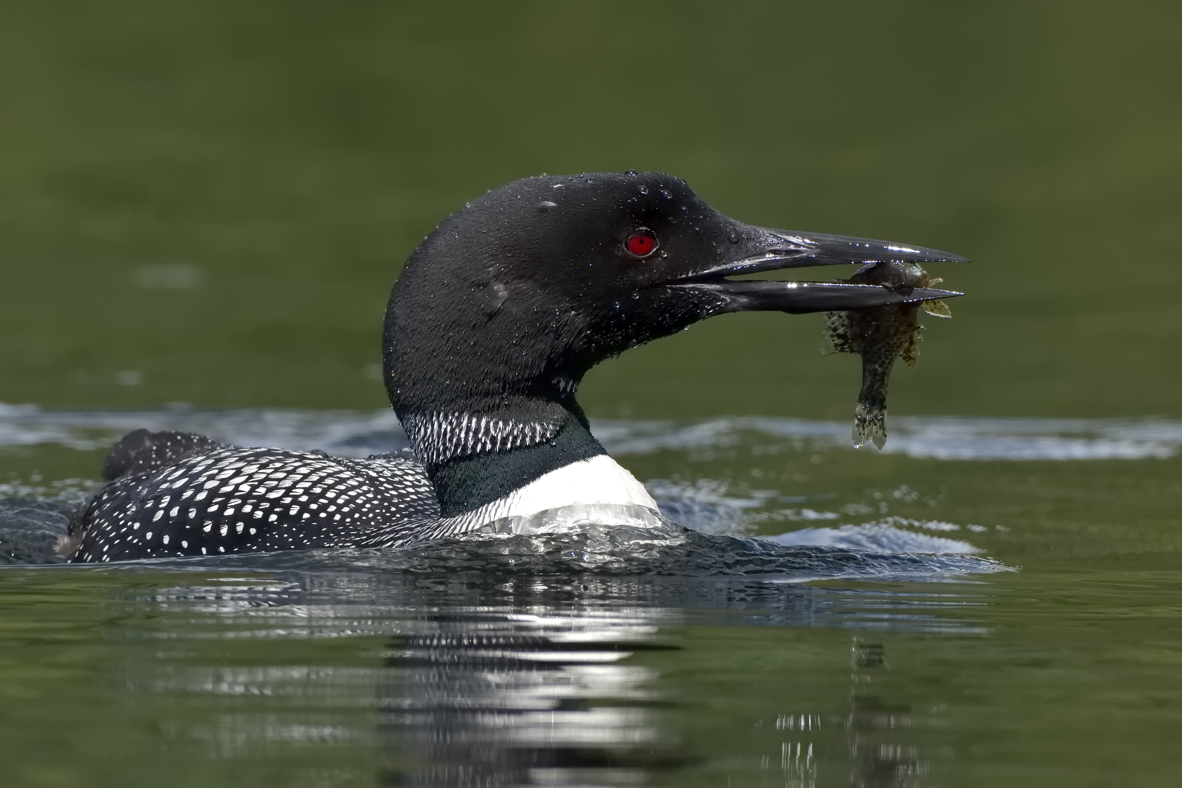 Common loon